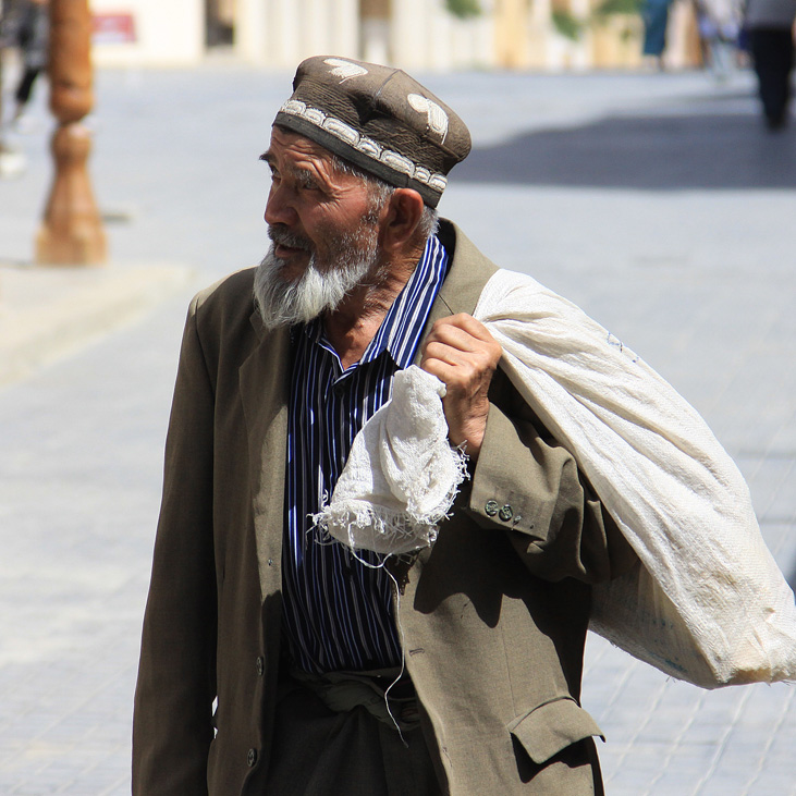 A local trader in Bukhara, Uzbekistan.